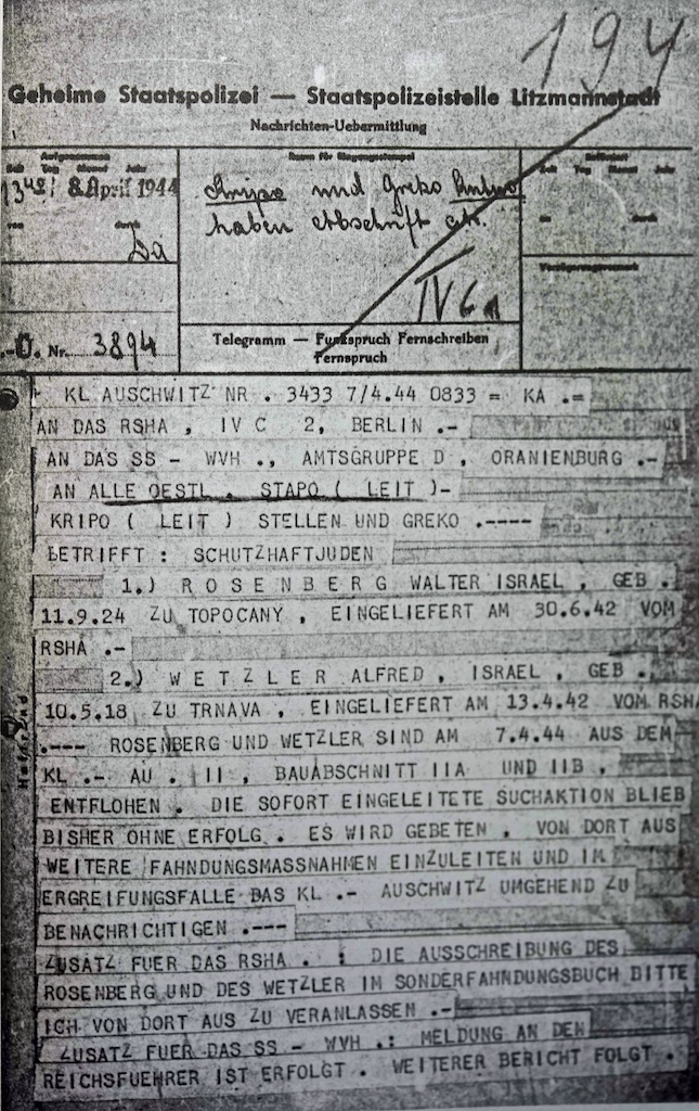 Telegram on 8 April 1944 from the Gestapo at Auschwitz, Poland, with descriptions of Rudolf Vrba and Alfred Wetzler, two escapees, to the Reich Security Head Office in Berlin, the SS in Oranienburg, district commanders, and others. This was widely distributed to police and security offices.